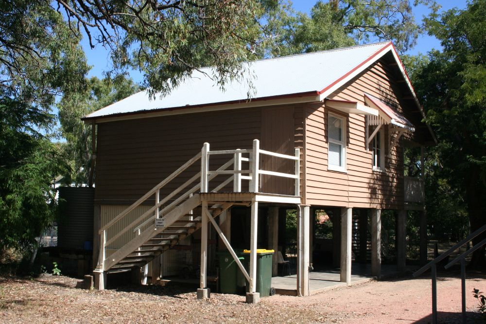 Picnic Bay State School, then Magnetic Island Craft shop, now Magnetic Island Museum